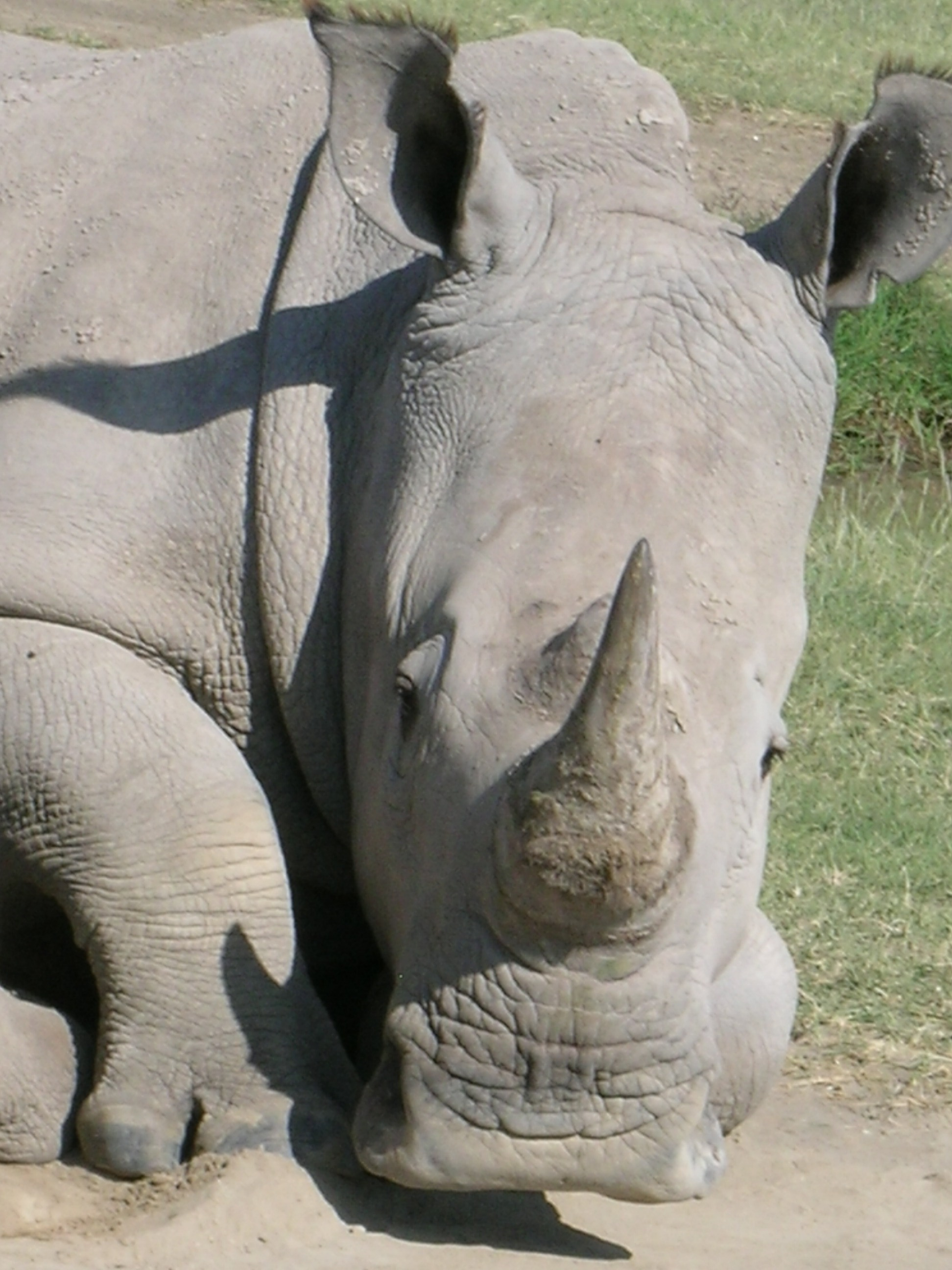 White Rhinoceros at Lake Nakuru National Park in Kenya